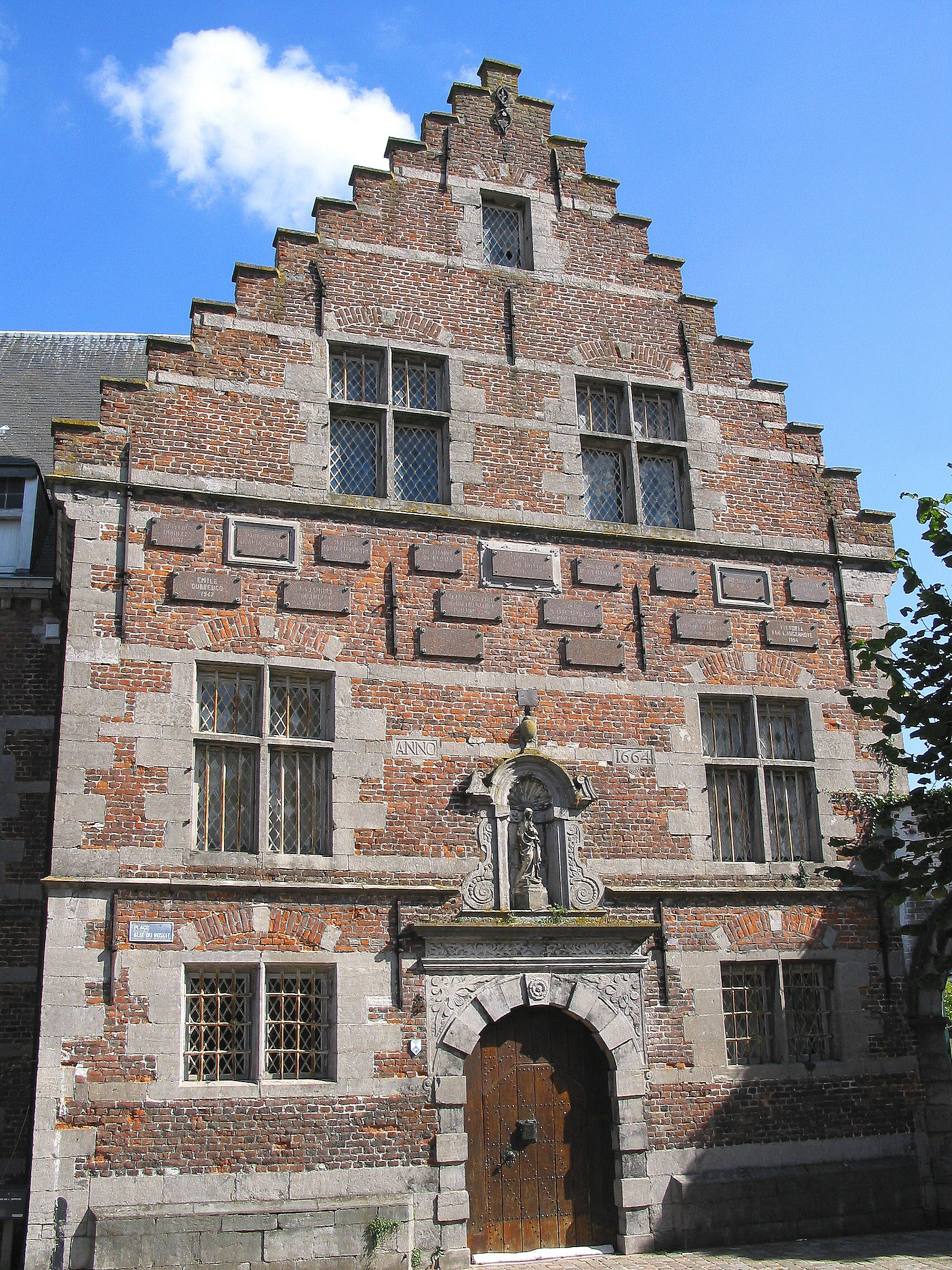 Lessines (Belgium), the Hospital Our Lady With the Rose (founded in 1242).